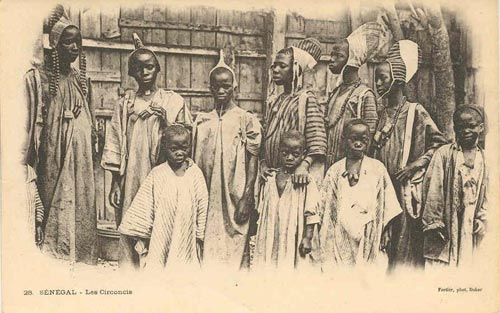 French Postcard